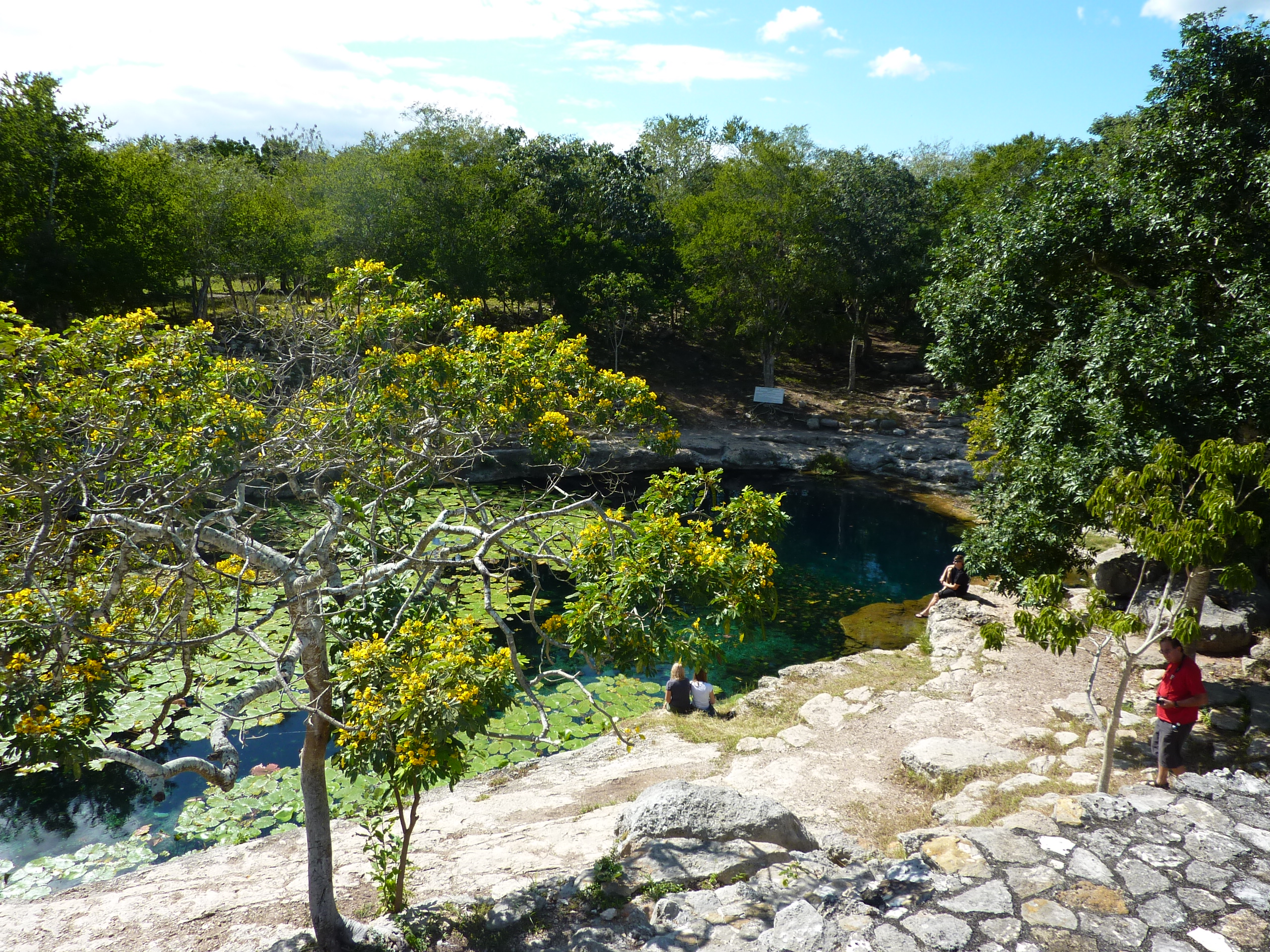 Cenote Xlacah, the famous cenote near the center of the Dzibilchaltún Maya site.